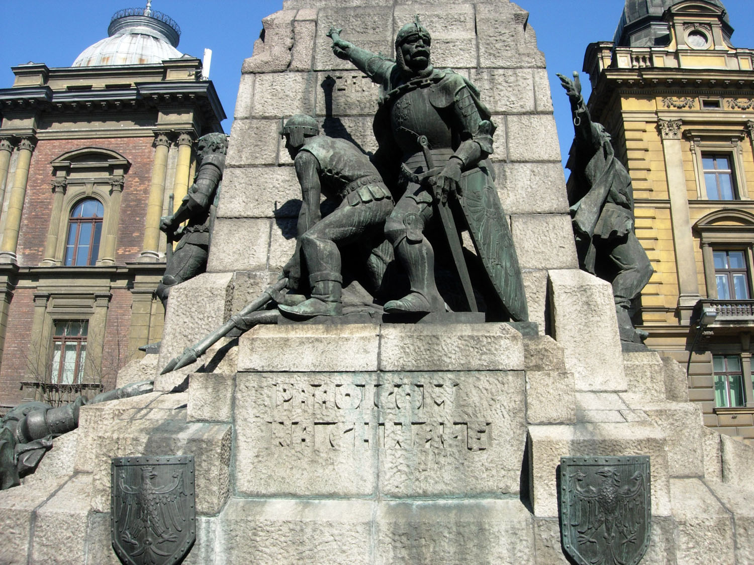 Polish knights on the Grunwald Monument in Kraków, Poland.